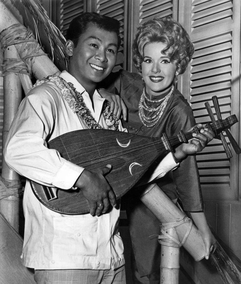 Publicity photo of entertainer Poncie Ponce and actress Connie Stevens from the television program Hawaiian Eye.